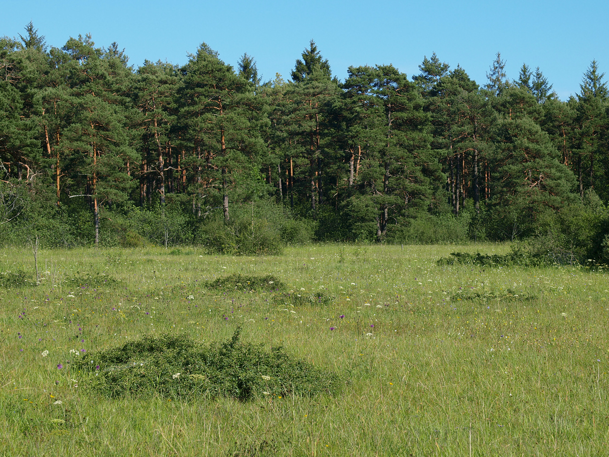 Königsbrunner Heide at the end of july with Rhamnus saxatilis in the foreground